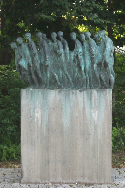 Memorial in Krailling for a death march from KZ Dachau. Artist: Hubertus von Pilgrim